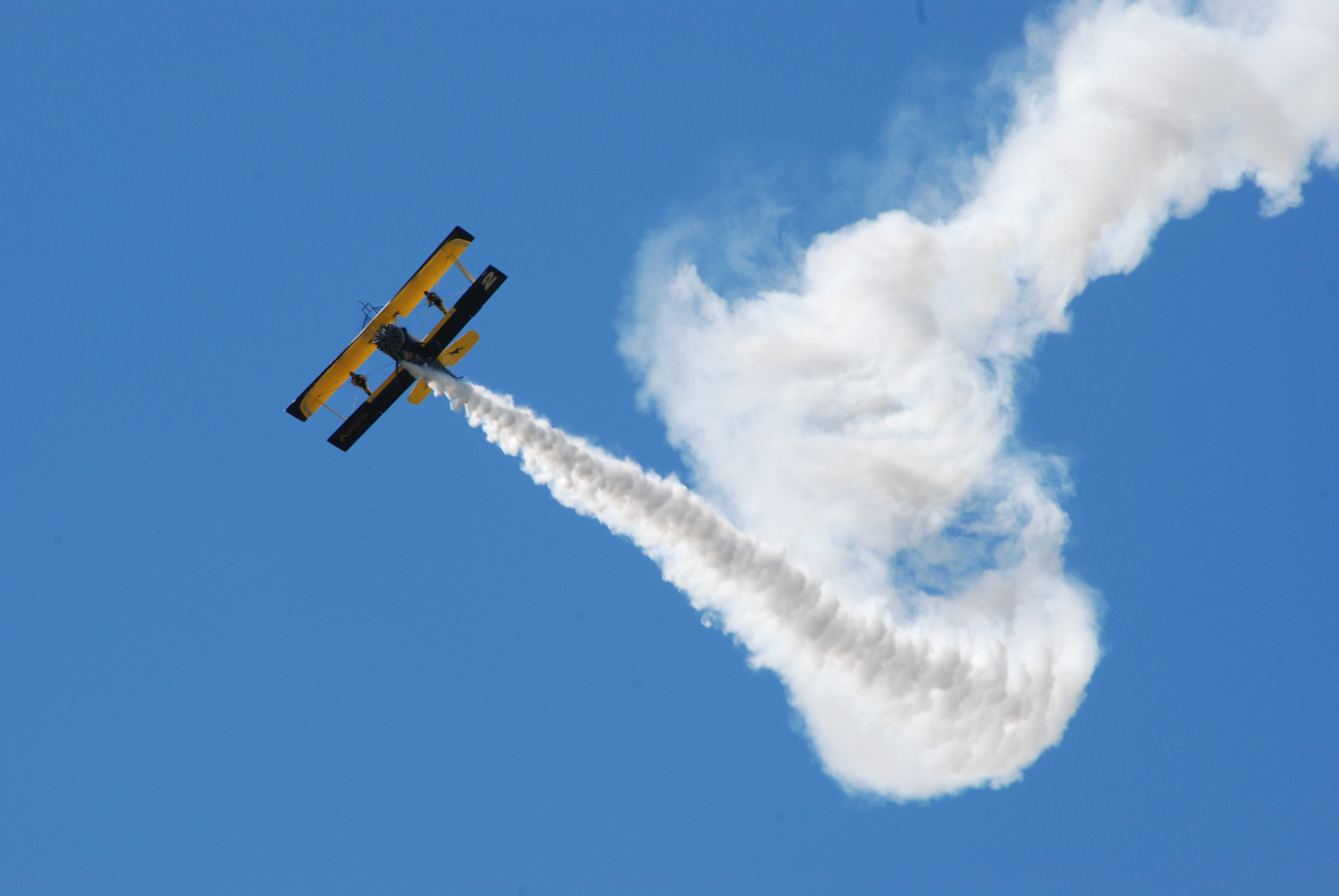 Skycats in action